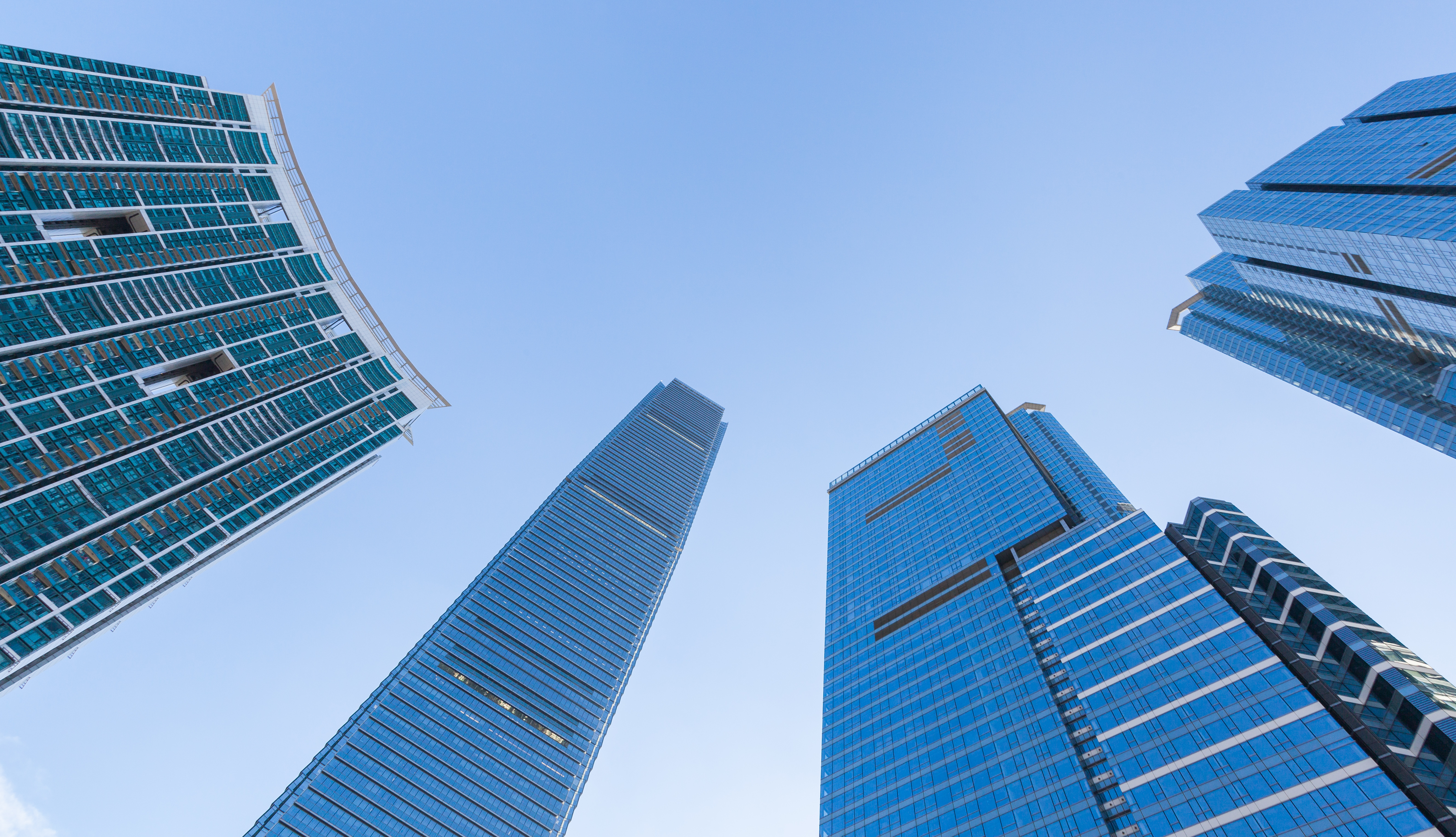 International Commerce Centre, Kowloon, Hong Kong